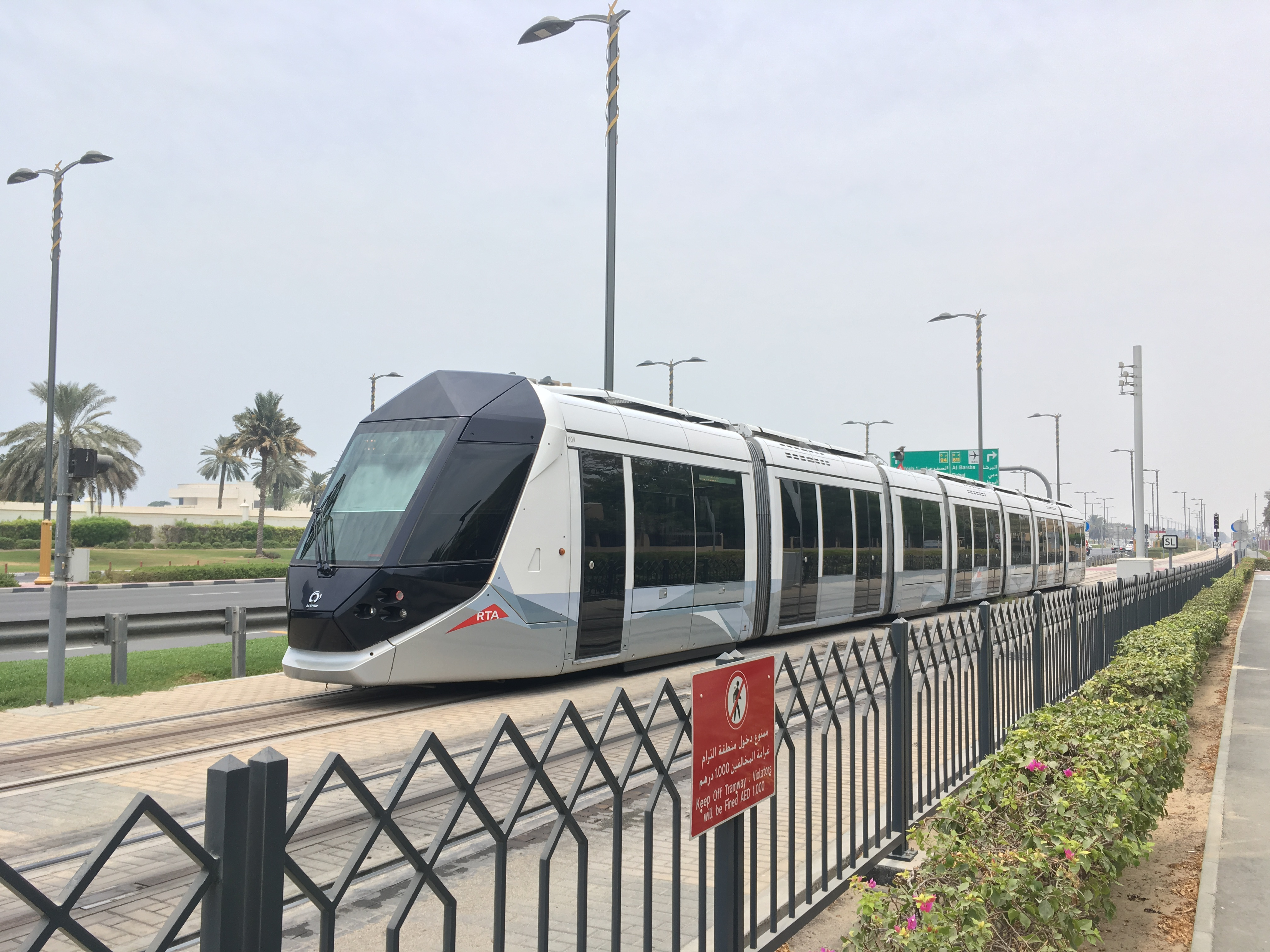 A Dubai Tram Alstom Citadis 402 near Al Sufouh station